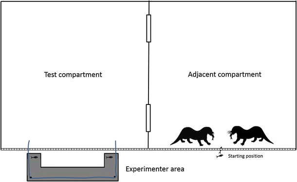 Illustration of the setup in the delay conditions of Schmelz, M., Duguid, S., Bohn, M. et al. Anim Cogn (2017) 20: 1107. Subjects were lured to the adjacent compartment, while the Hirotter board was baited. One end of the rope was closer to the door to the adjacent compartment than the other one so that the returning subjects could access this end of the rope before the other one